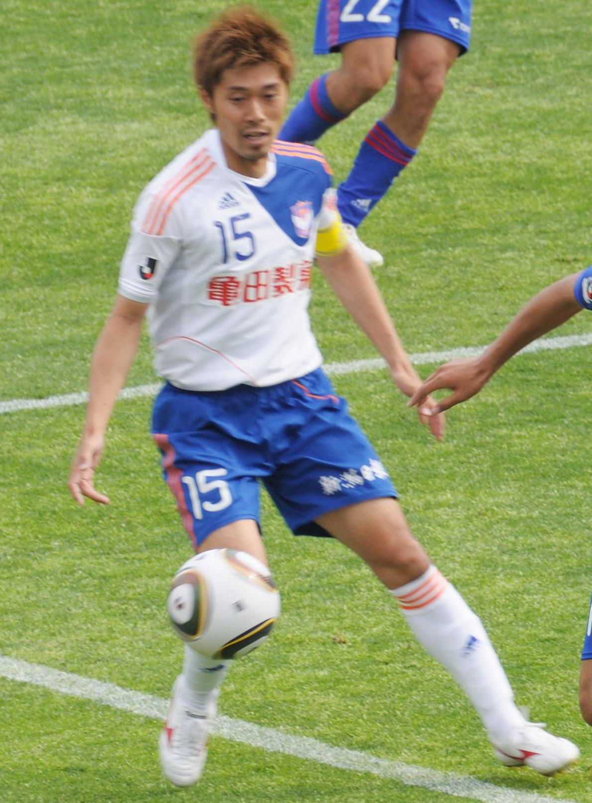 Isao Homma Albirex Niigata - 2 cropped from DSC_4389